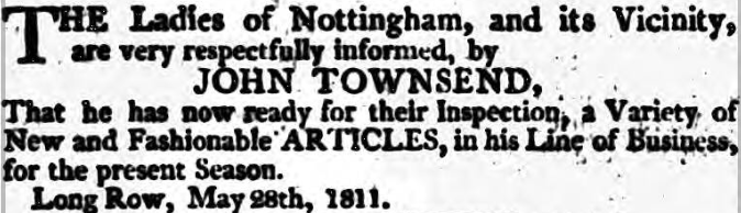 From the Nottingham Journal - Saturday 01 June 1811